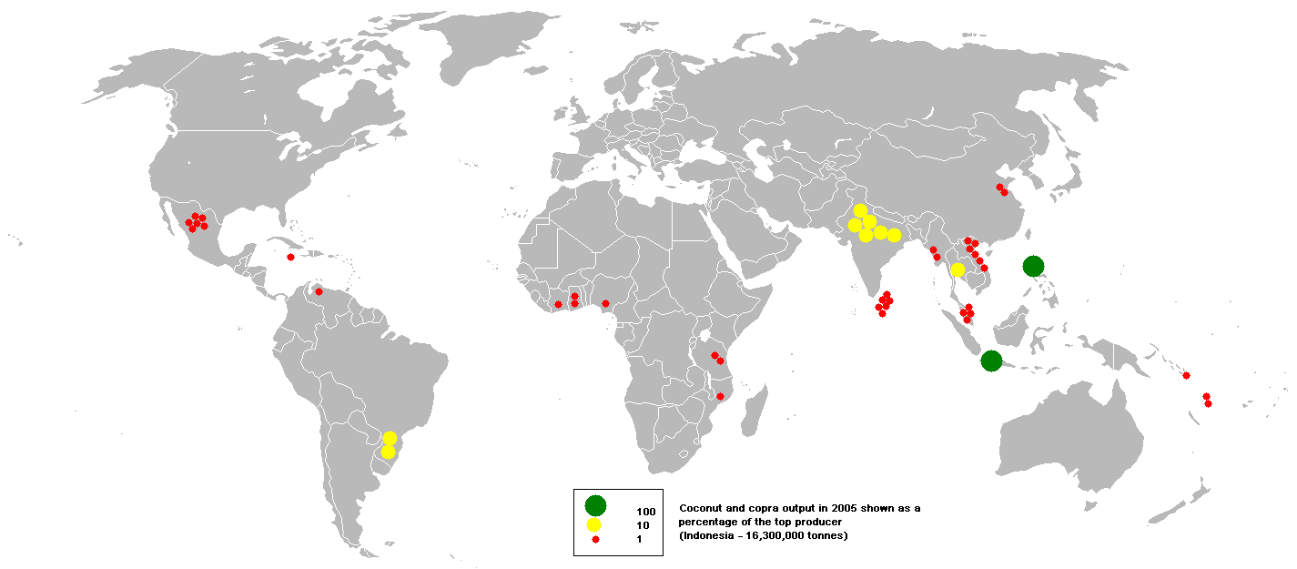 This bubble map shows the global distribution of coconut and copra output in 2005 as a percentage of the top producer (Indonesia - 16,300,000 tonnes). This map is consistent with incomplete set of data too as long as the top producer is known. It resolves the accessibility issues faced by colour-coded maps that may not be properly rendered in old computer screens.